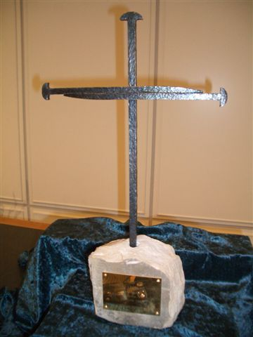 Cross of Nails Gemarke Church Wuppertal, Germany